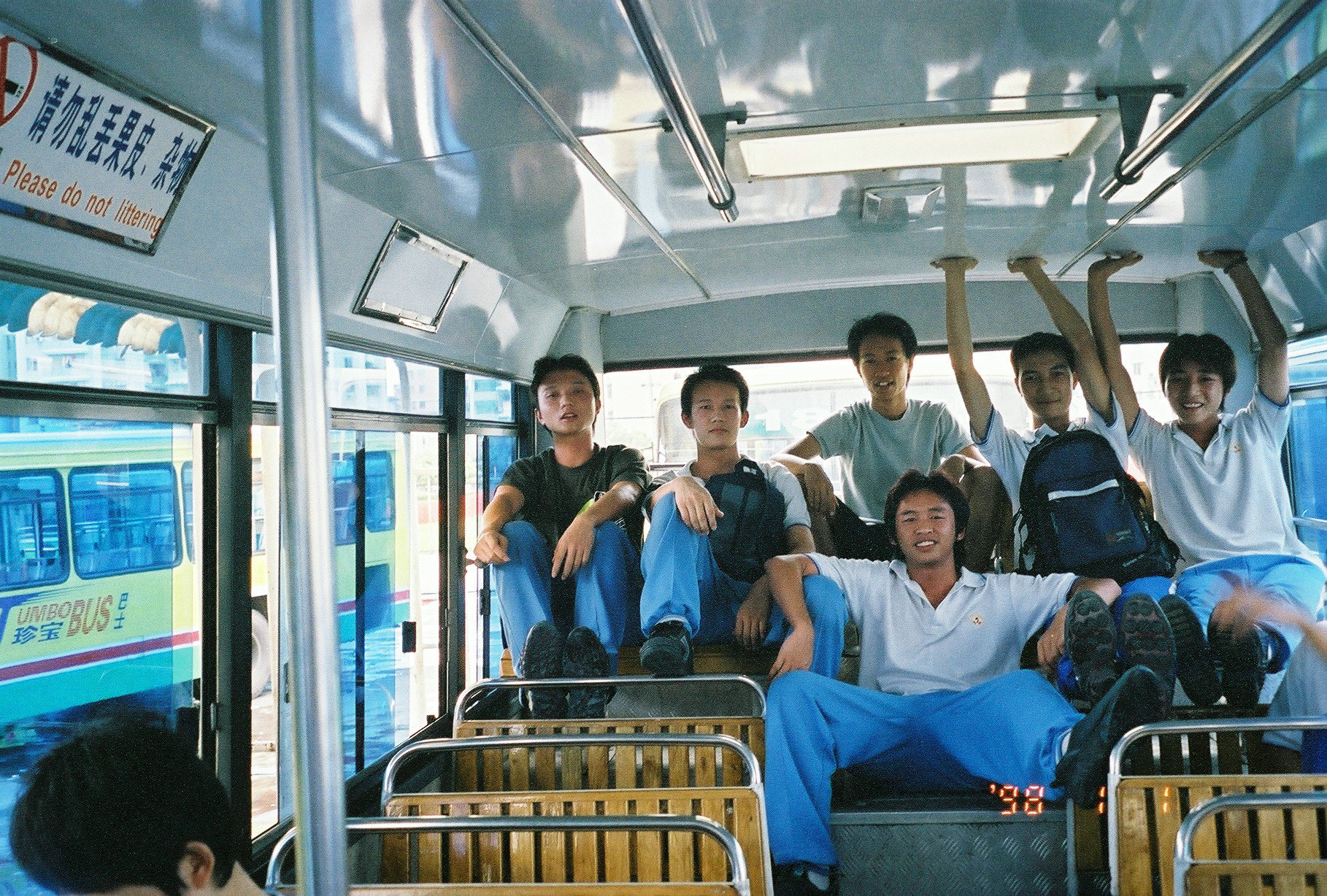 Interior of a bus in Canton, Kwangtung. Photo dated ca. 2002 instead of 1998 based on cross examination against the photographer's contemporary photos. 粵語: 廣州巴士內籠，D凳係木嘅間條。 對比Flickr相簿入邊第啲相，應該係2002年影嘅，圖片右下日期應該錯咗。